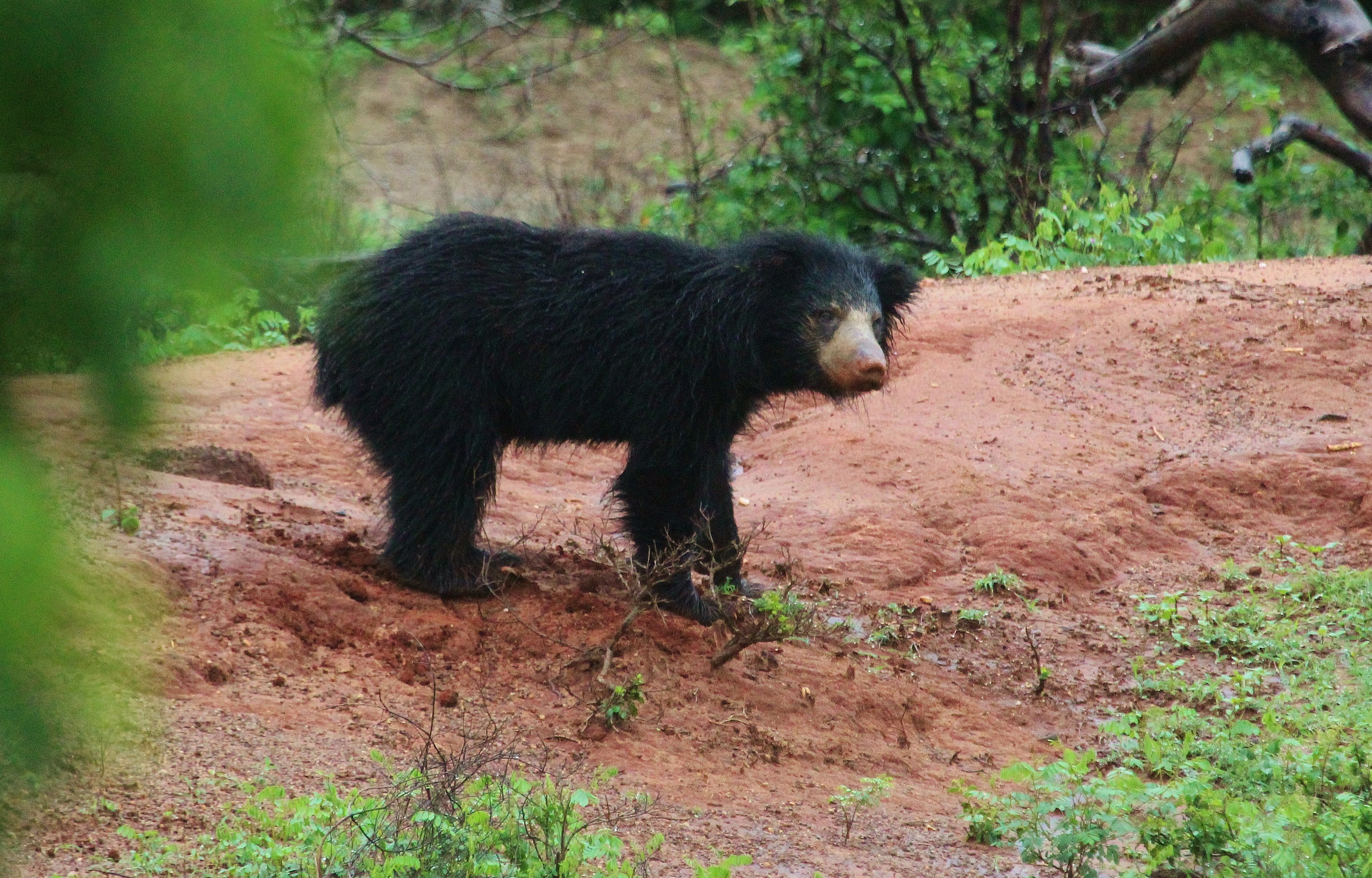 A Sri Lanka Sloth Bear at Yala National Park, Sri Lanka.